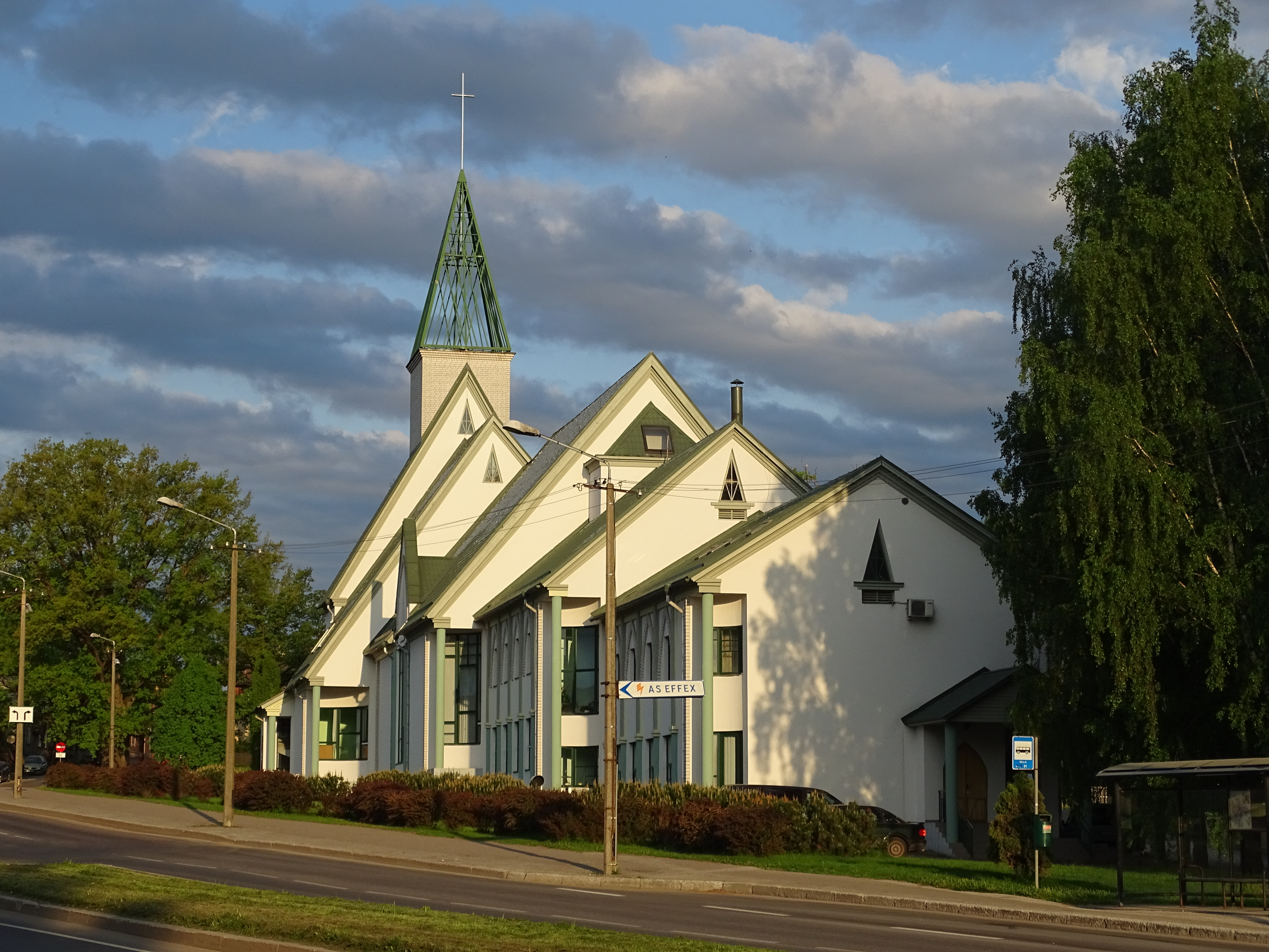 Tartu Salemi kirik, a protestant church in Tartü, Estonia.